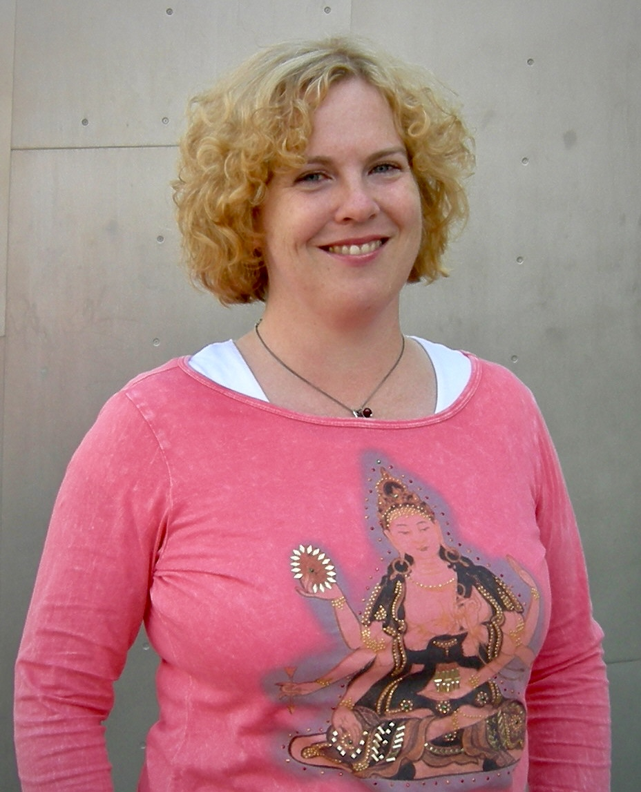 Music and culture critic Ann Powers. Picture taken outside Experience Music Project, Seattle, Washington, during the 2007 Pop Conference.